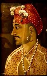 Portrait of Maratha warrior, Sadashiv Rao Bhau (1730-1761)